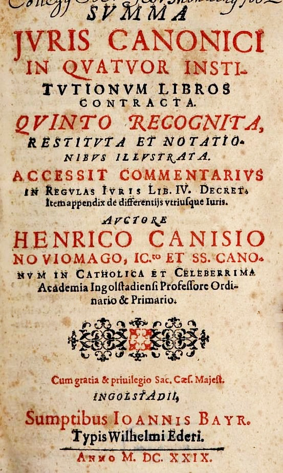 Titelblatt eines kirchenrechtlichen Werkes von Heinrich Canisius (+ 1610)